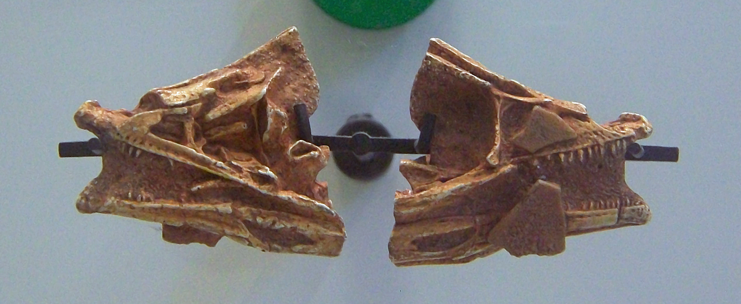 Cast of the skull of a juvenile dromaeosaurid (specimen AMNH 28506) found in the nest of an oviraptorid. On display in the American Museum of Natural History.